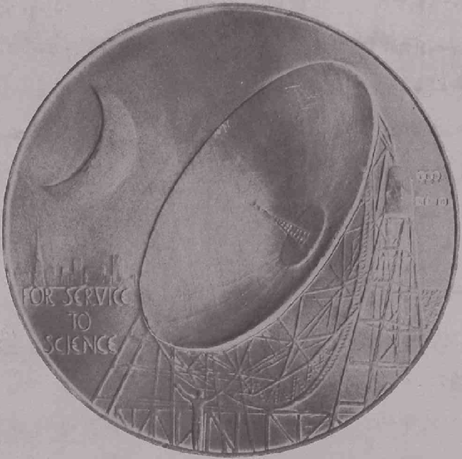 ANZAAS Medal (back)